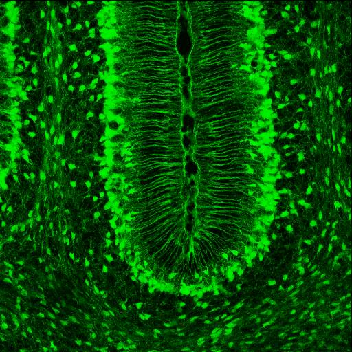 Slc1a3 gene expressed in the Bergmann glia of the cerebellum of a mice aged 7 days; saggital section. The Gene Expression Nervous System Atlas (GENSAT) Project, NINDS Contract # N01NS02331 to The Rockefeller University (New York, NY)